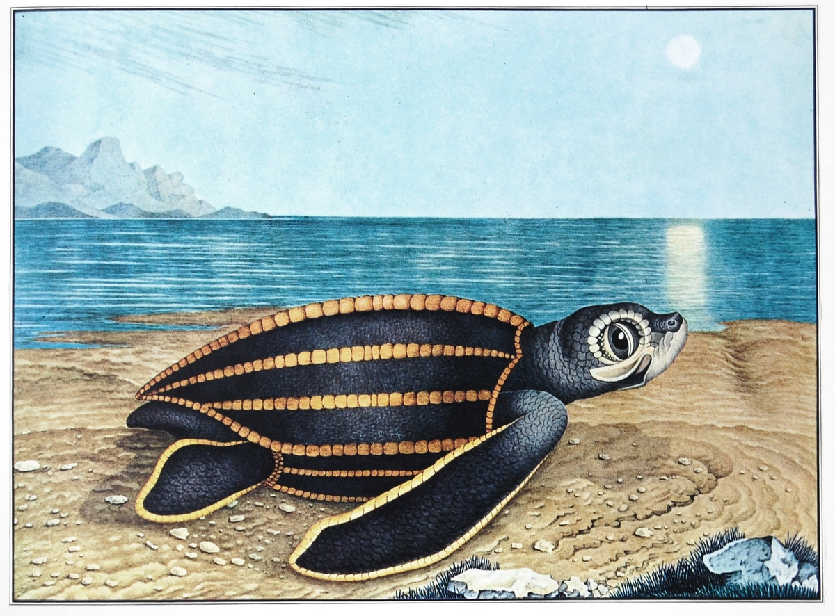 From the "Bestiarium"